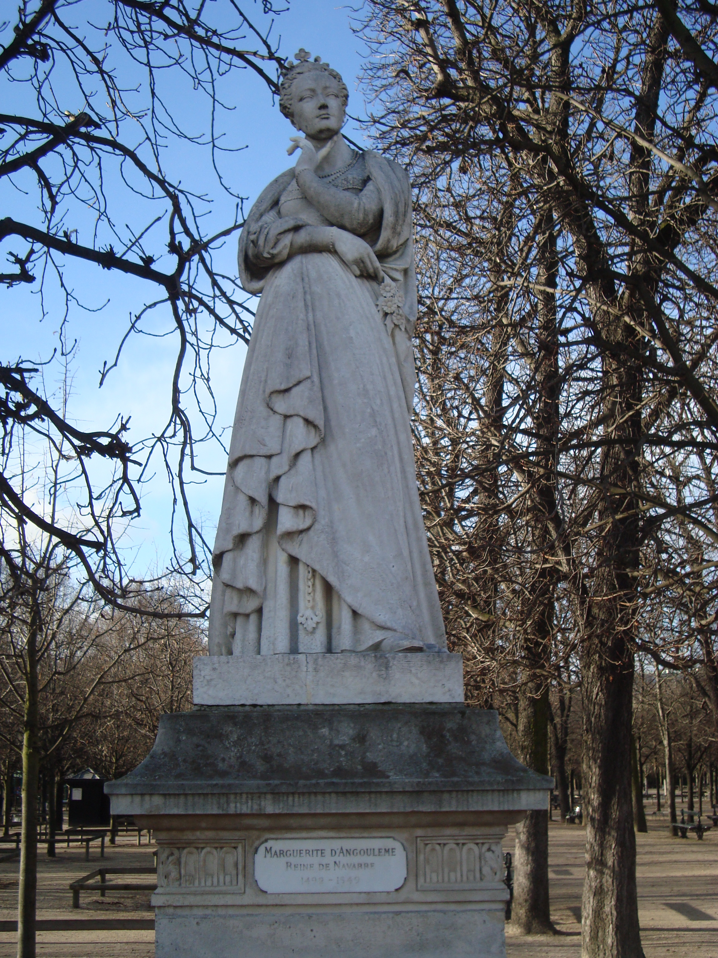 Statue of Marguerite d'Angouleme by Joseph Lescorné (1799-1872) in the Jardin du Luxembourg, Paris